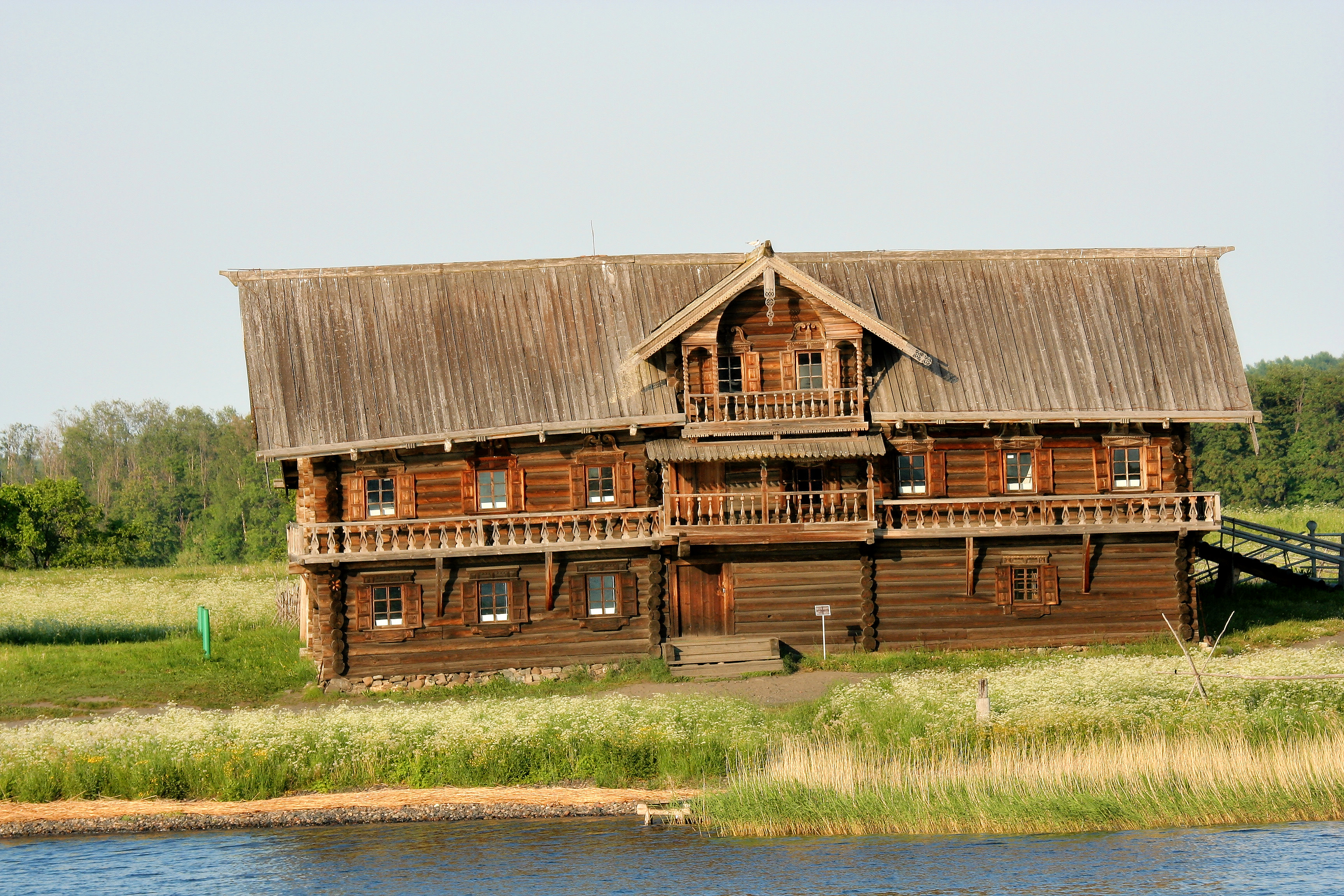 Kizhi farmhouse